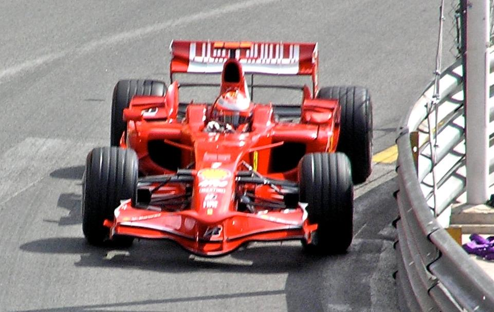 Kimi Räikkönen driving for Scuderia Ferrari at the 2008 Monaco Grand Prix.